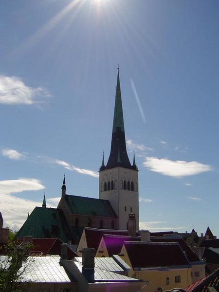 St. Olaf's church, Tallinn.